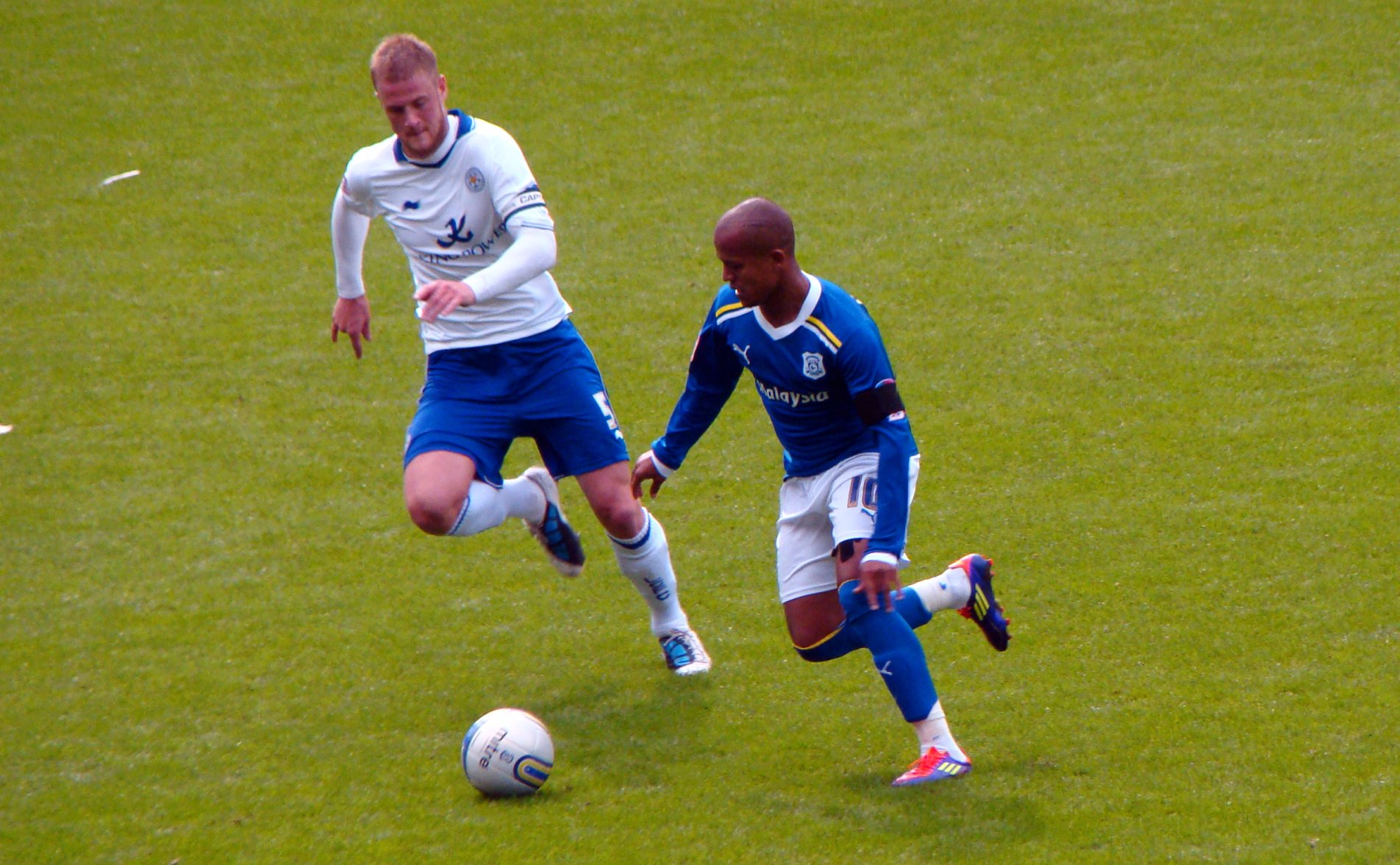 25/09/11 Cardiff V Leicester, Championship, Cardiff City Stadium, Cardiff, Wales